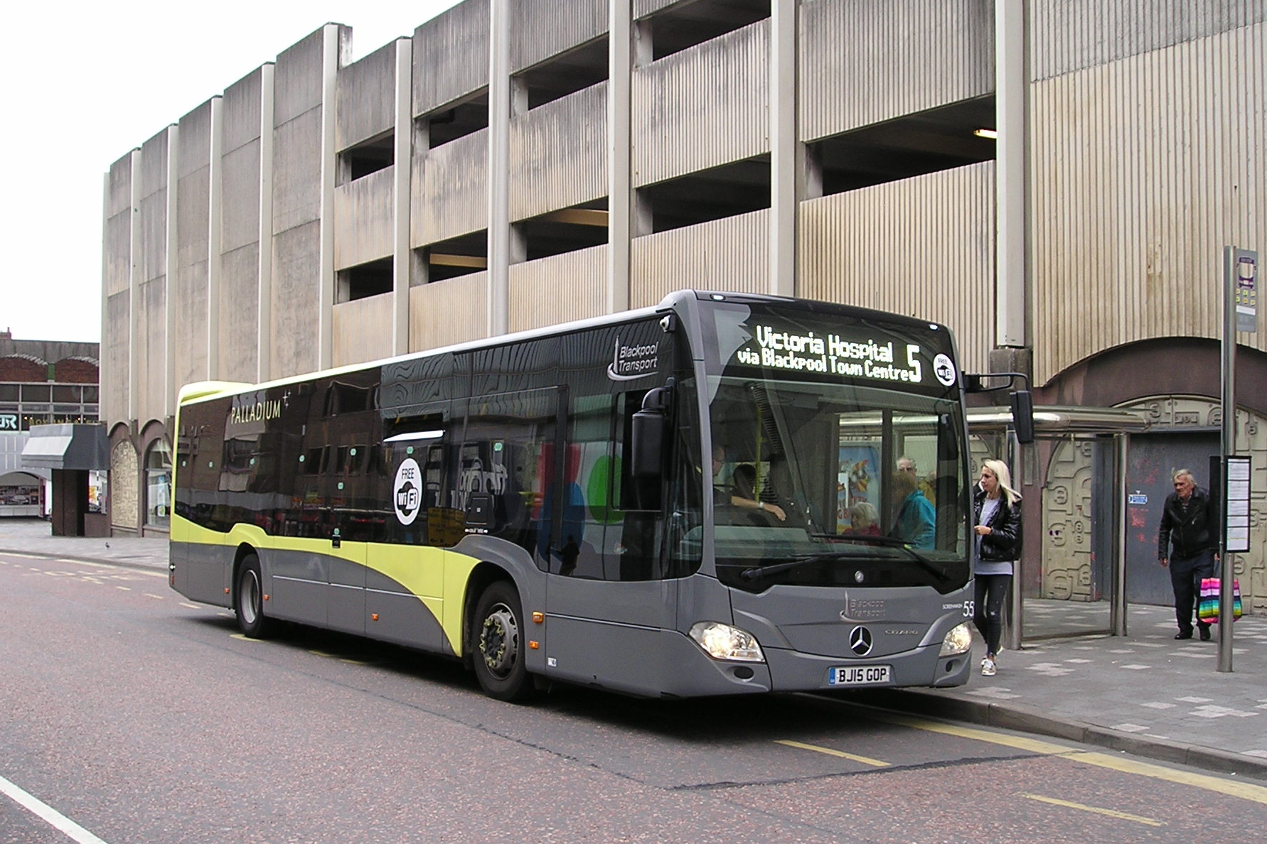 Mercedes Benz Citaro B38F, new in 2015. Photographed in Blackpool, September 2018.